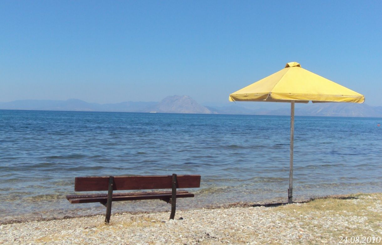 Summer view of the beach in Tsoukaleika village, Achaia, Greece.